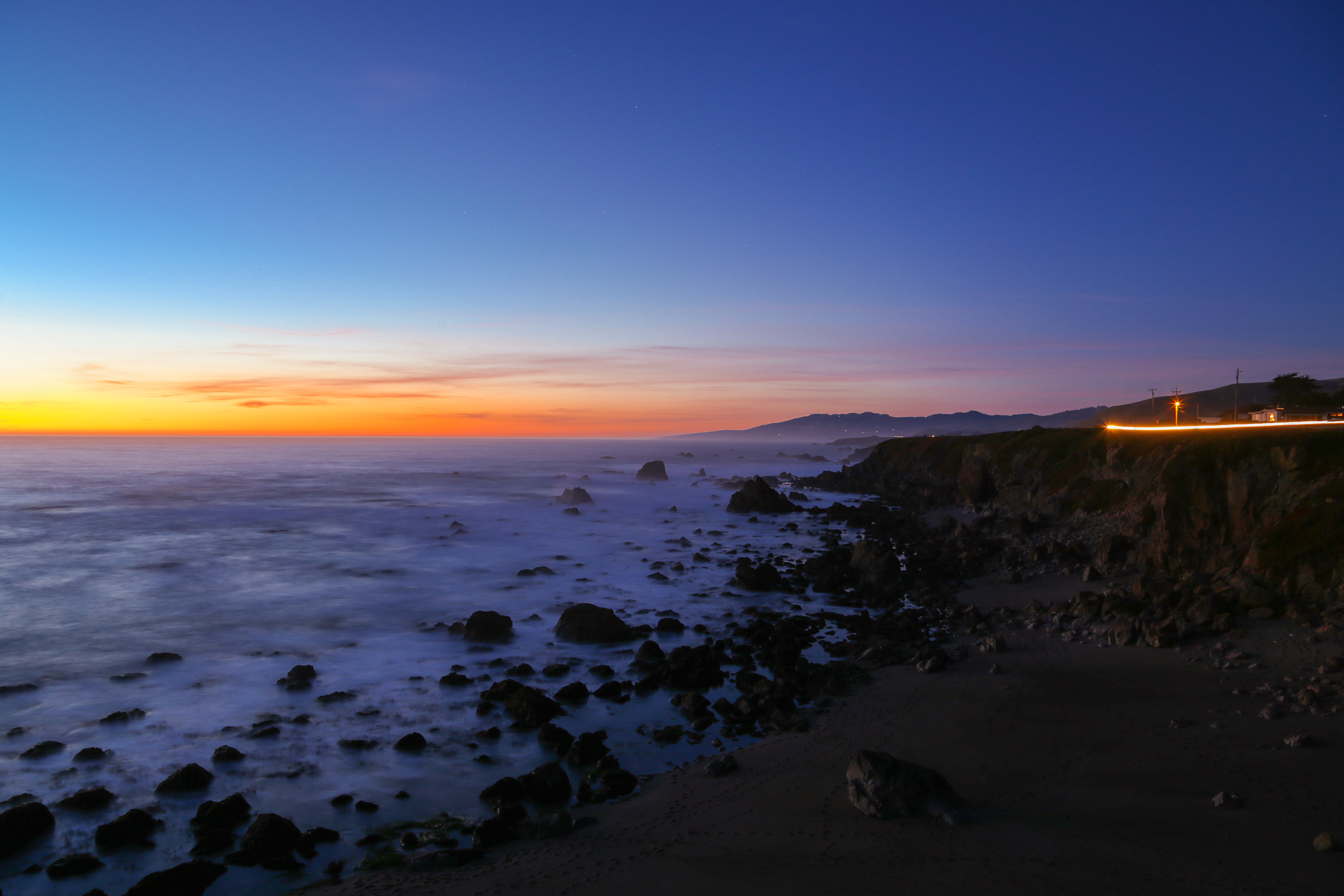 Sunset along California's rugged Sonoma Coast, near Bodega Bay. [Canon 6d / 24-105mm f/4L]